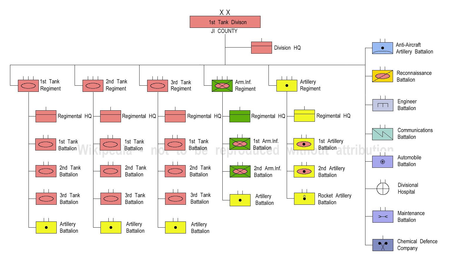 1st Tank Division of Tianjin Security District, Order of Battle from 1983 to 1998.